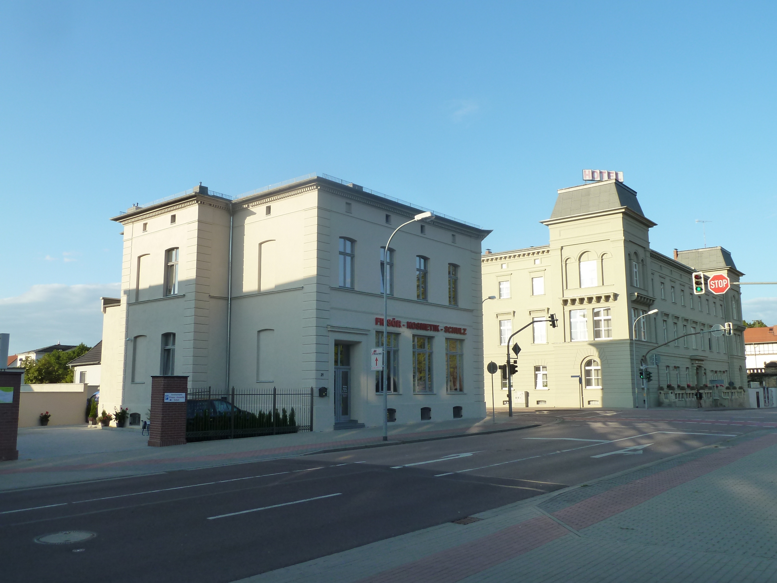 Köthen, former railway post office from 1840 by Christian Conrad Hengst, cultural heritage. The building was unused for more than 20years. Since 2013, it is used by a barbershop. View from Southwest.